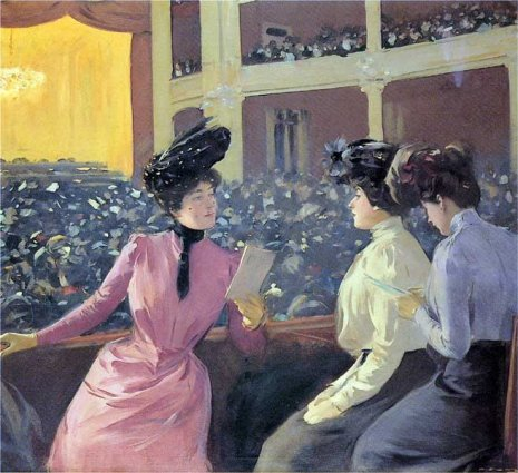 Teatre Novedades, by Ramon Casas, 1901-1902, Cercle del Liceu, Barcelona